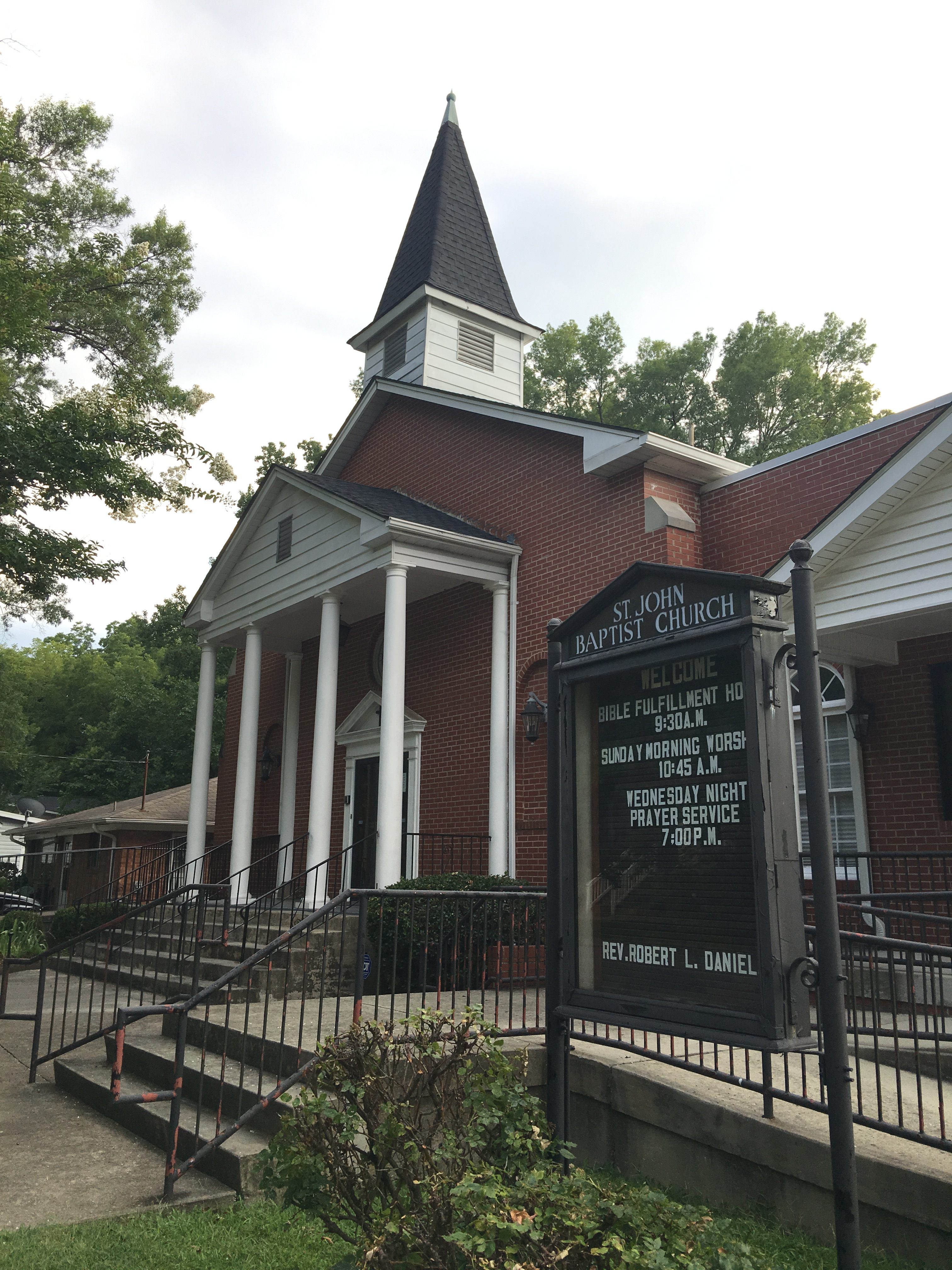 St. John Baptist Church In Walltown, Durham, North Carolina